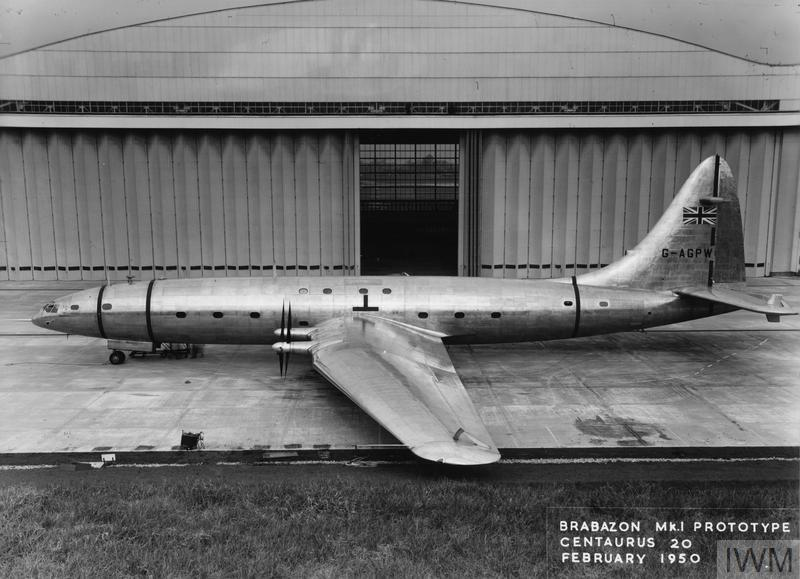 This is the prototype Bristol Type 167, Brabazon, which made its first flight on 4 September 1949.